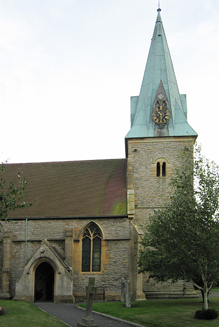 West tower, spire and north porch of the parish church of St James the Great, Harvington, Worcestershire